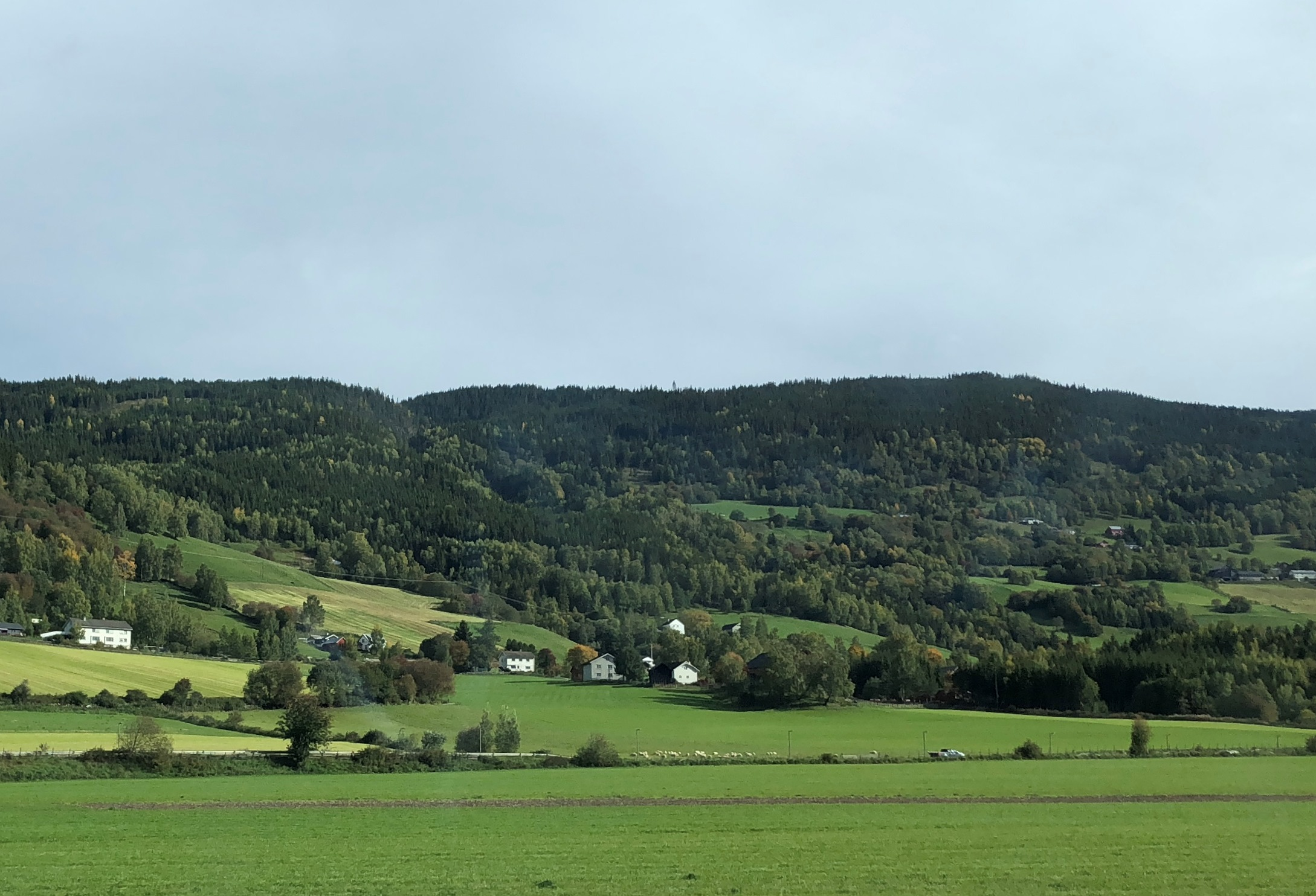 Haug Gård (farm), is a farm located along the Lågen river far west in Øyer municipality, Oppland county (Norway).